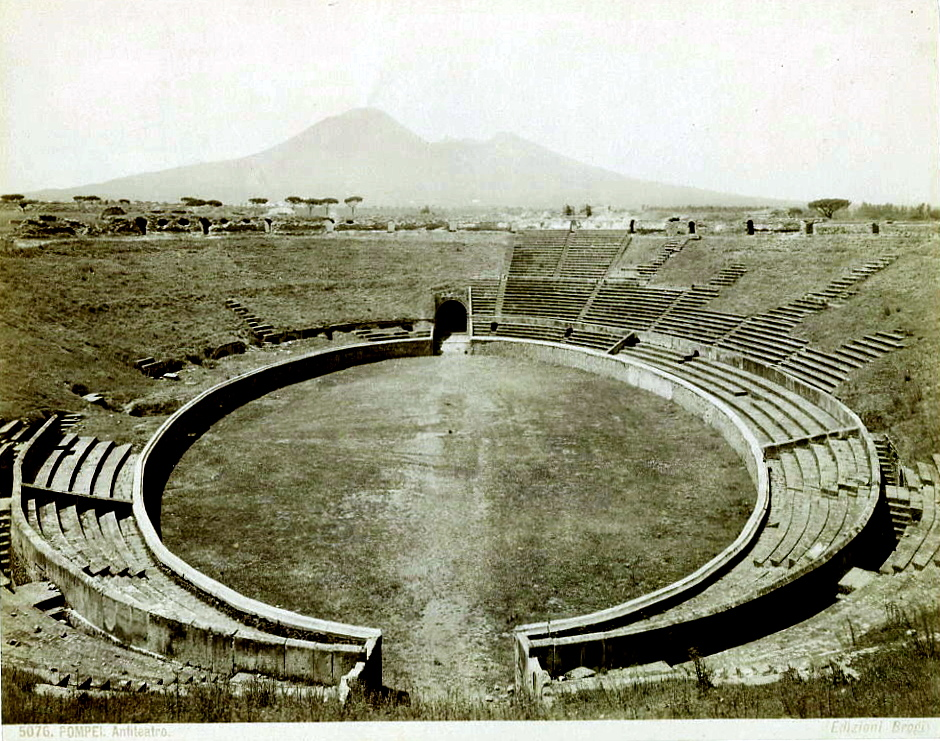 Giacomo Brogi (1822-1881) - "Pompeii. Amphitheater ". Catalogue: # 5076.